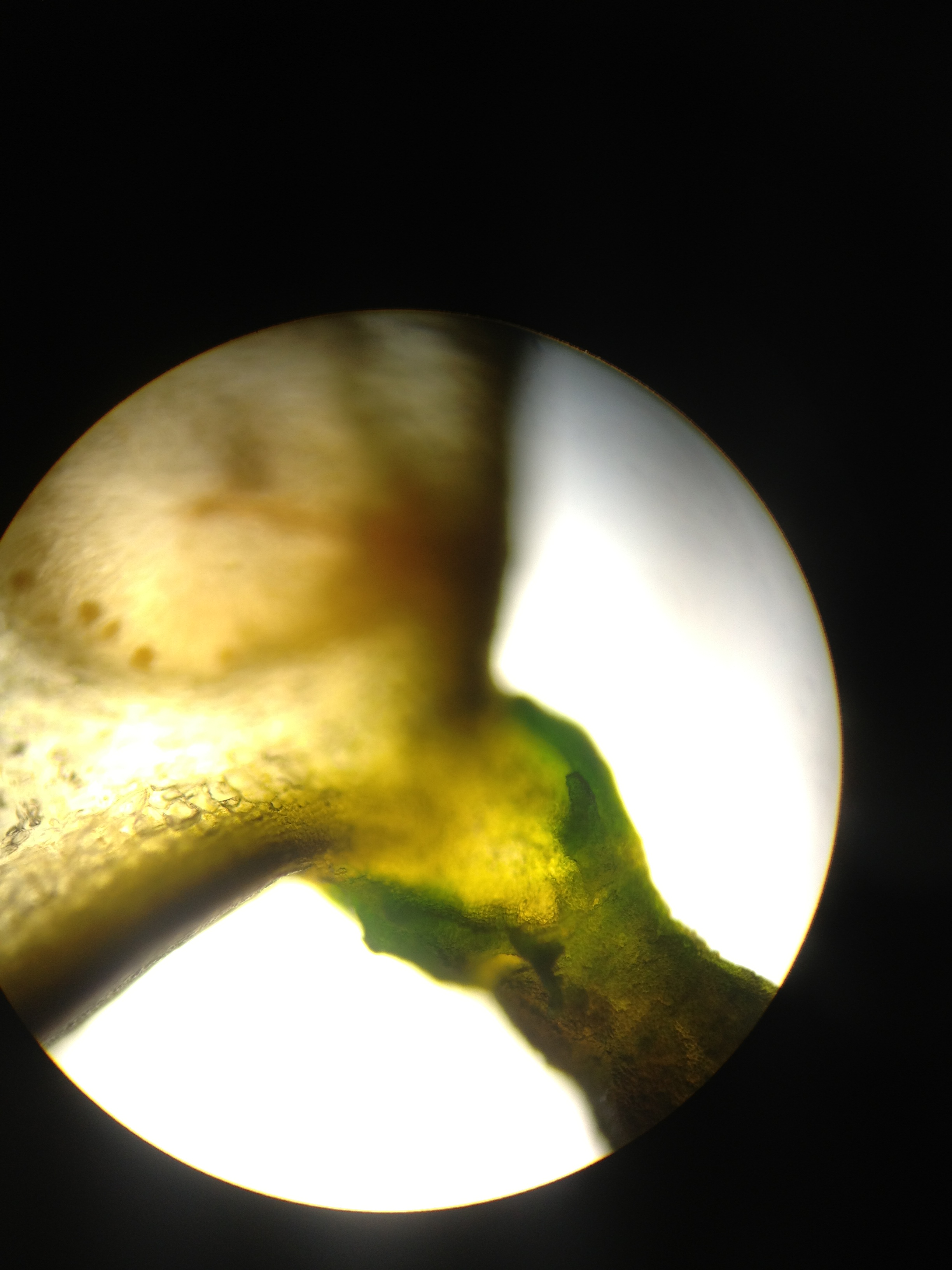 The base of a Notheia plant attached to Hormosira tissue. Note that the branch is not directly linked to the Hormosira conceptacle at 1 o'clock